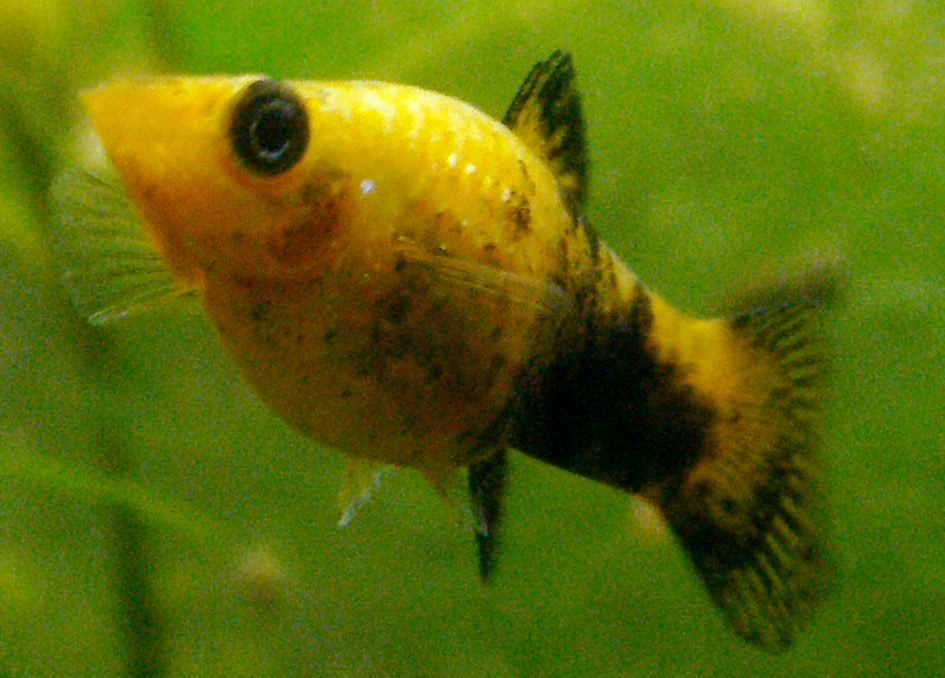 Female Gold Molly. Its a female fish as you can see cause it has no Gonopodium.